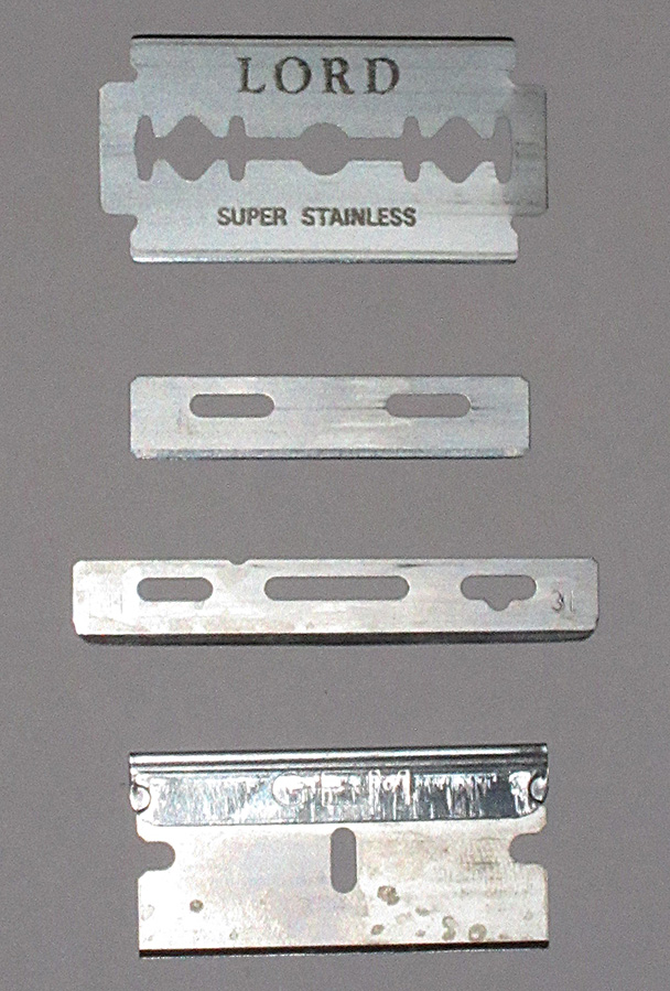 Safety razor blades, from top to bottom: a double-edge blade (Gillette type), a single-edge blade (Schick type), a single-edge blade (shavette type) and a GEM blade.